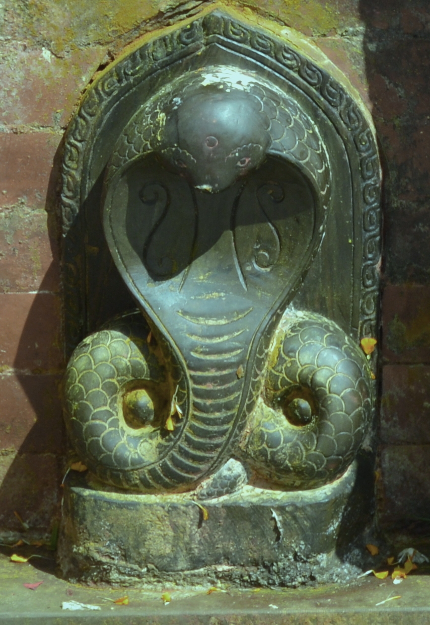 Naksaal Bhagwati Temple